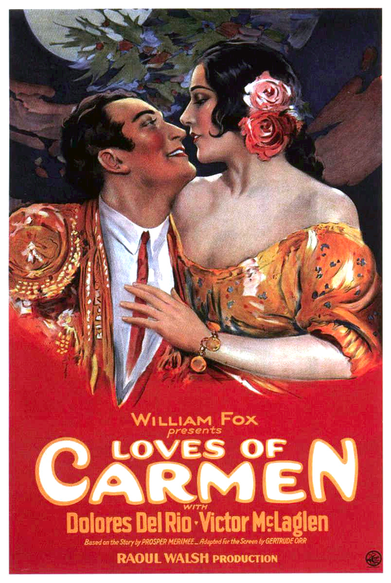 Poster for the 1927 film The Loves of Carmen. The item has no copyright markings on it as can be seen in the links above. At lower right is a logo for the Morgan Litho Company--they printed the poster.